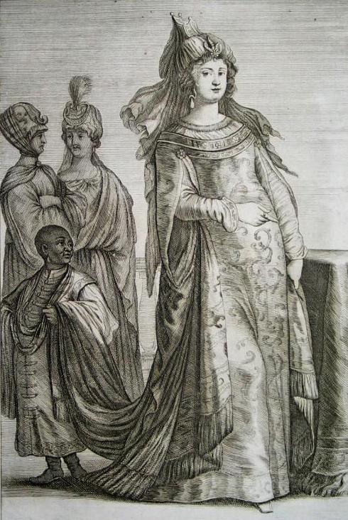 A depiction of Zaffira (named on p. 645 of the source), said to be one of the wives of Ottoman Sultan Ibrahim I, with a servant boy. She and her son Osman (illustrated in a separate engraving: see below) were on a Turkish ship that was part of a convoy sailing from Constantinople to Alexandria and carrying a number of pilgrims bound for Mecca, which was attacked by the Knights Hospitaller of Malta during the Action of 28 September 1644.